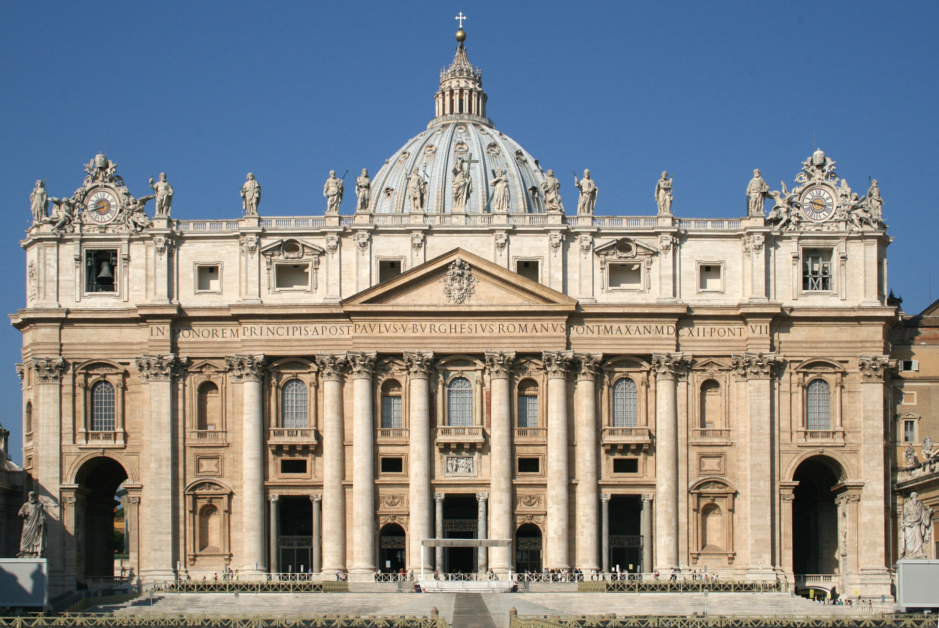 Façade of the St. Peter's Basilica in Vatican City.